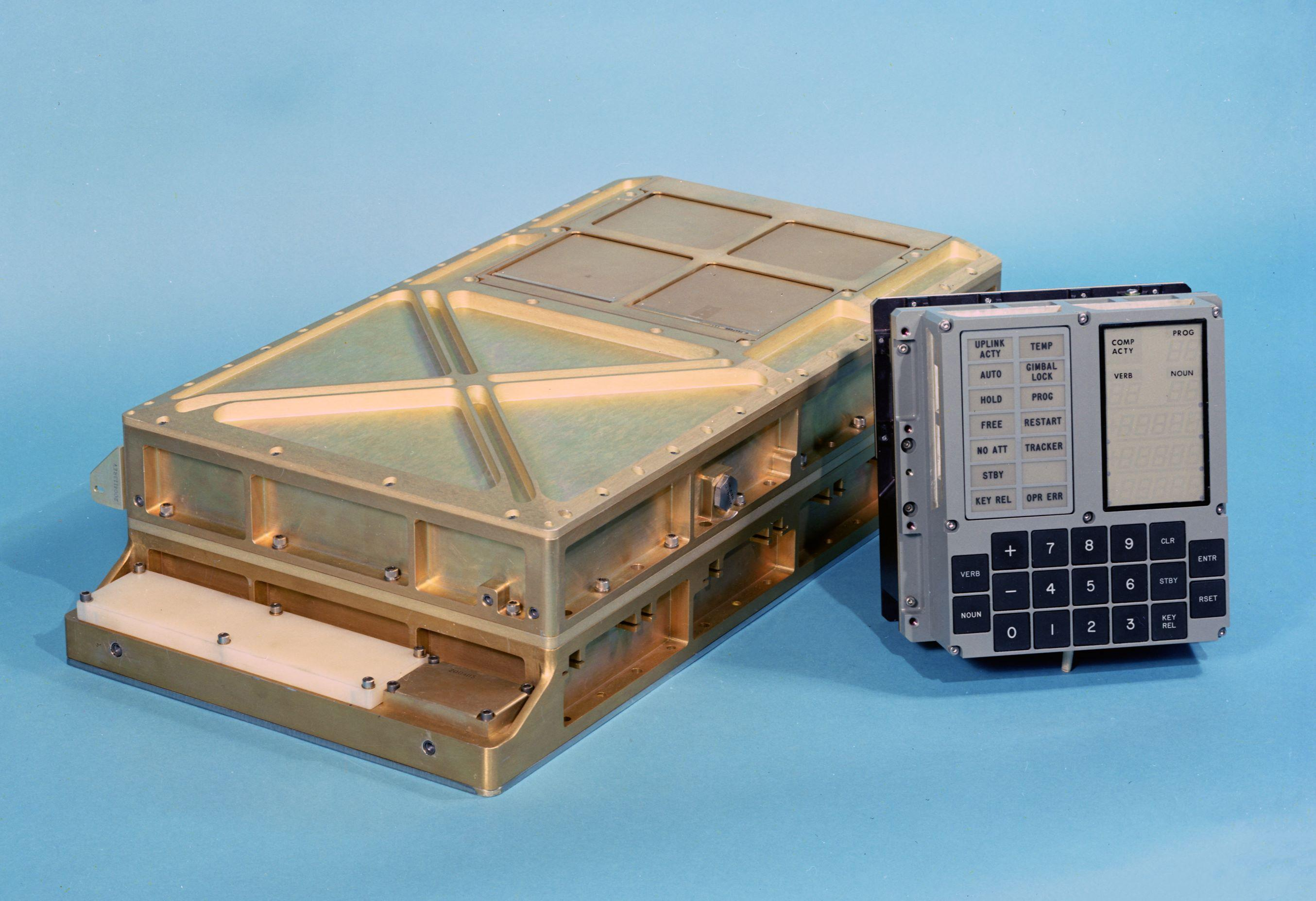 The DSKEY input module (right) shown alongside the Apollo Guidance Computer's main casing (left).